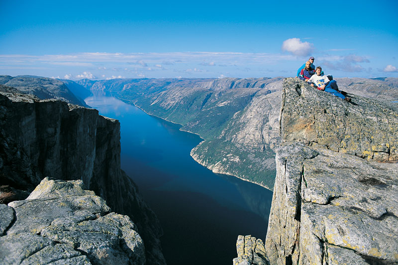 The fjord Lysefjorden as seen from Kjerag Photo by: Ove Hetland Taken from: Copyright: "Destinasjon Stavanger og Sandnes Reiselivssenter har laget et fotoarkiv til bruk for våre medlemmer og samarbeidspartnere. Bildene er til fri bruk og skal benyttes i markedsføring av Stavanger, Sandnes og Rogaland forøvrig." in other words: "Public domain" A more complete translation of the second sentence is: "The pictures (at the web link) are released for free use with the object of promoting Stavanger, Sandnes and Rogaland and similar areas." Hence this is indeed public domain. The listing below is changed to reflect this. Williamborg 01:00, 15 April 2006 (UTC) Alas, I see that even this isn't clear enough. Perhaps William Shakespeare was right in Henry VI about the first thing to do. Ah well, I did my best to clear it up. It still requires someone to figure out how to slot this in an acceptable category. Williamborg 01:05, 15 April 2006 (UTC) This file is in the public domain, because Rights released by originator (albeit in Norwegian) In case this is not legally possible: The right to use this work is granted to anyone for any purpose, without any conditions, unless such conditions are required by law. Please verify that the reason given above complies with Commons' licensing policy. .